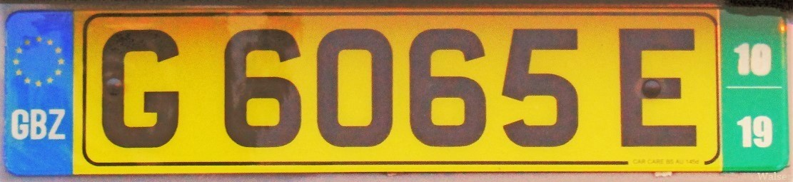 Gibraltar temporary plate, seen in Vaduz, FL